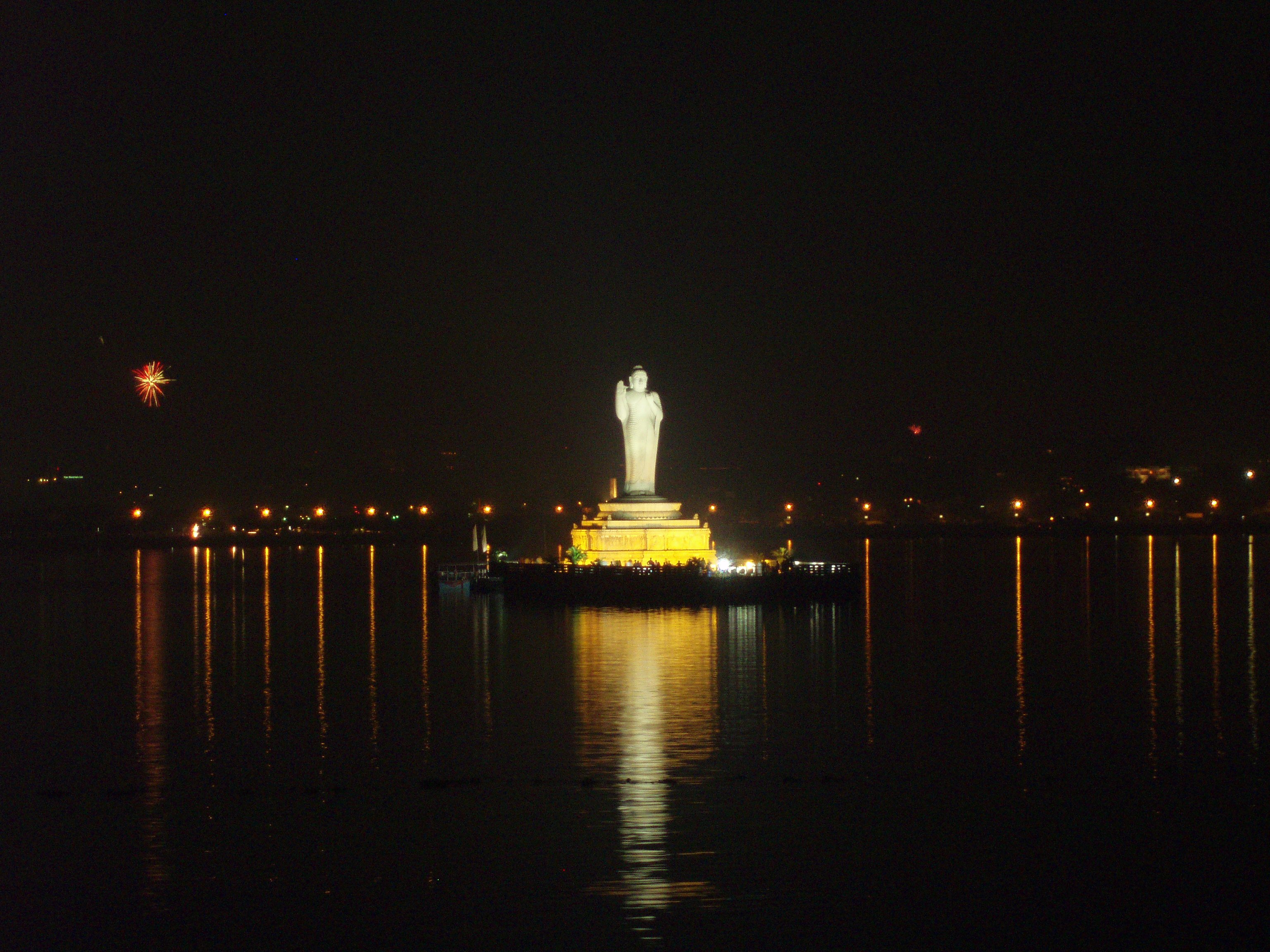 I took this picture on October 21, 2006. Diwali fireworks in the background.